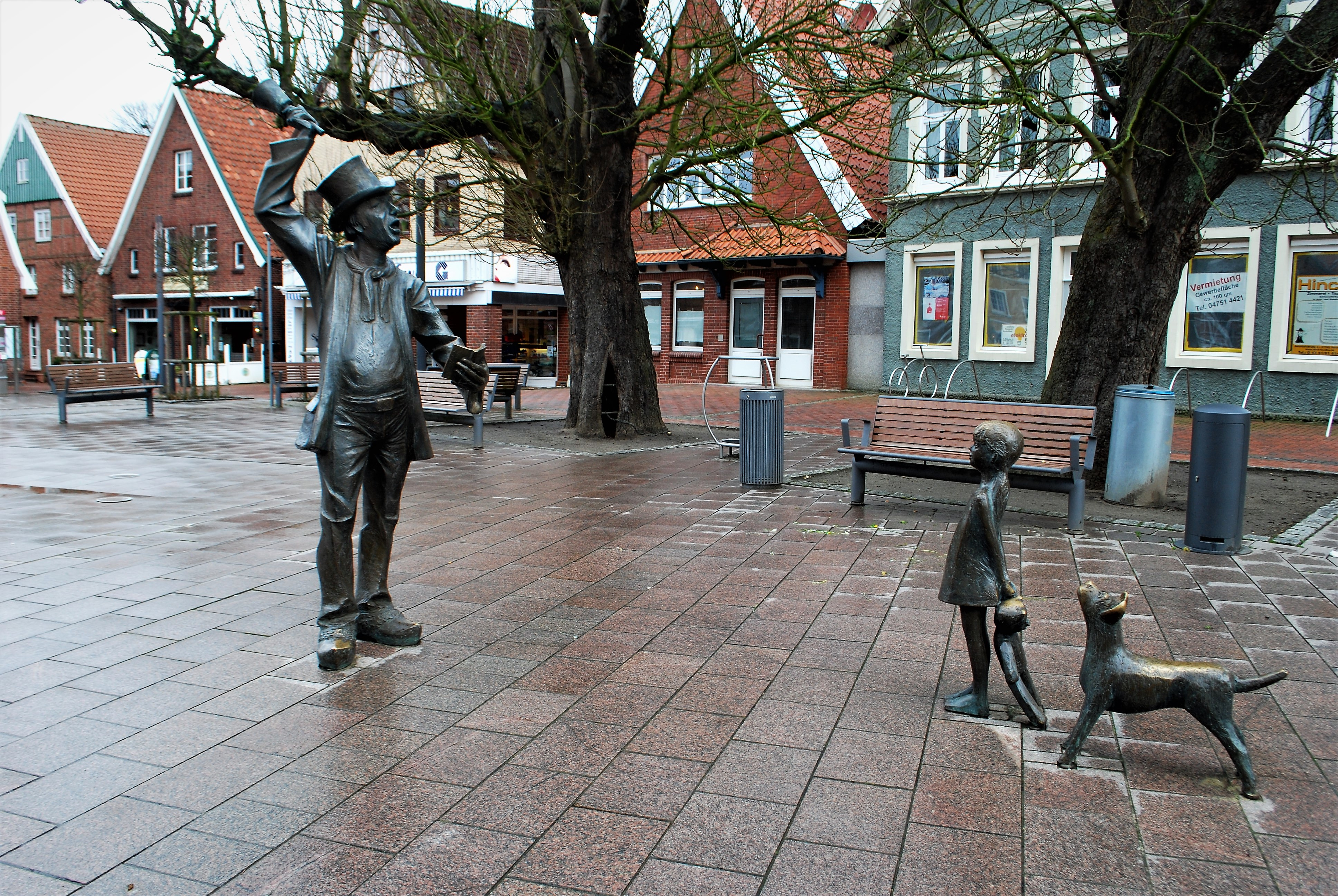 Otterndorf is a town on the coast of the North Sea in the region of Lower Saxony, Germany.